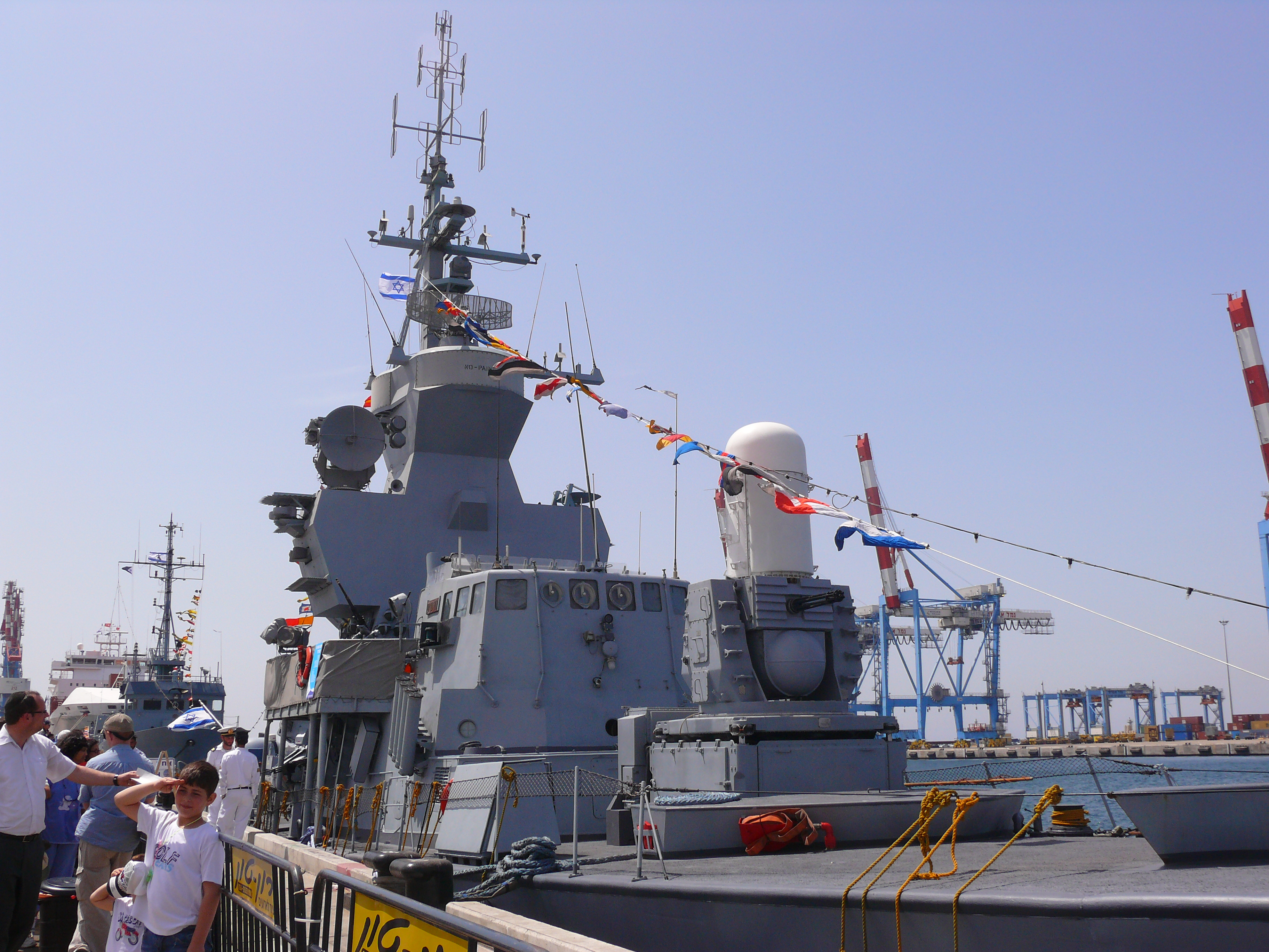 INS Tarshish Saar 4.5 class missile ship